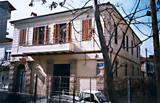 External view, image from the Wine and Vine Museum, Naoussa, Central Macedonia, Greece